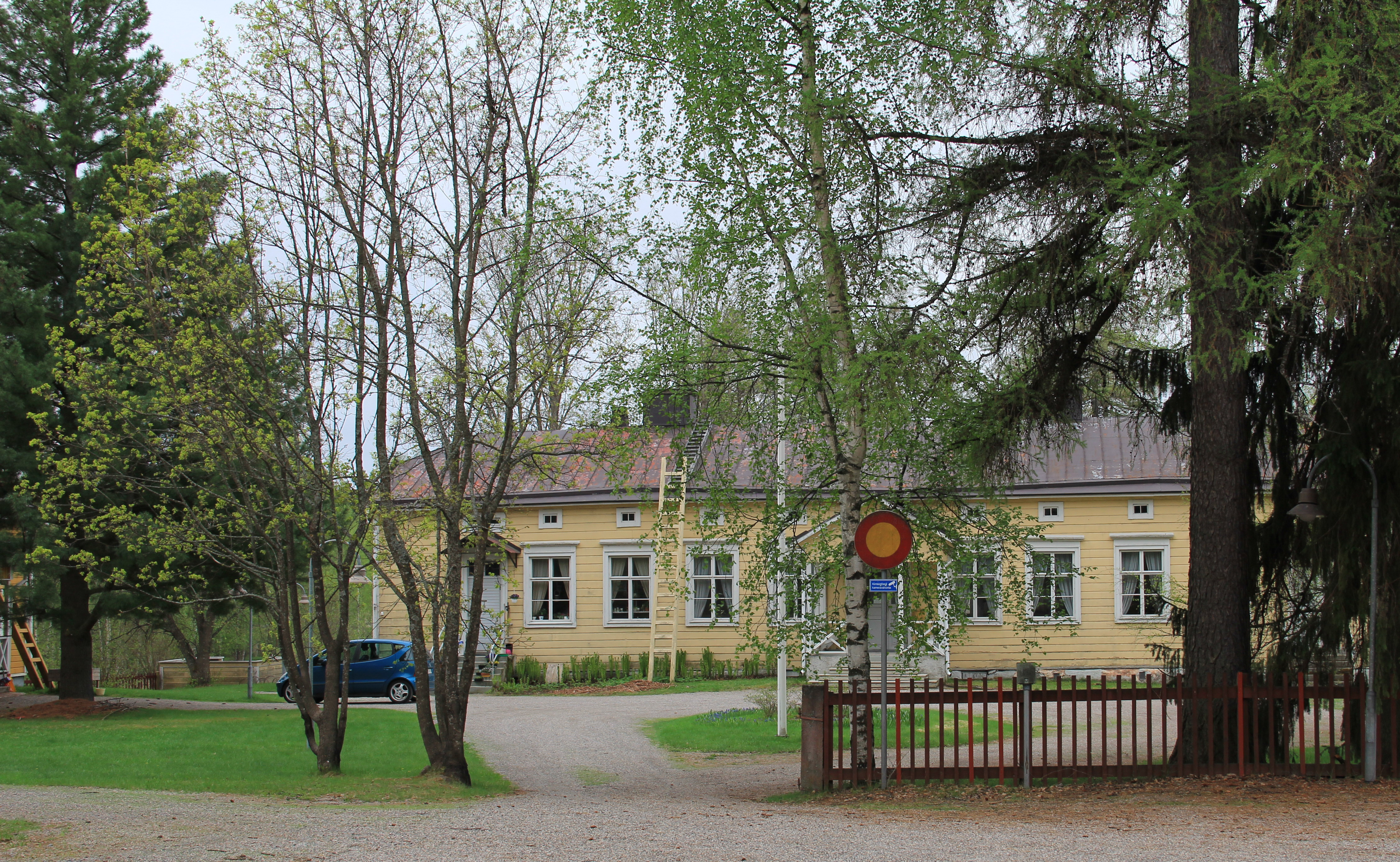 Heinola Rural Parish vicarage, Heinola, Finland. It was completed in the 1860s.